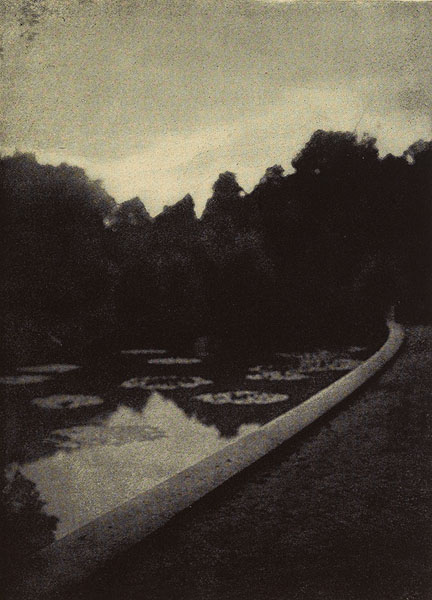 A Garden of Dreams Keiley, Joseph, b.1869-1914 Camera Work XVII, 1907 11.4 x 18.6 cm Halftone